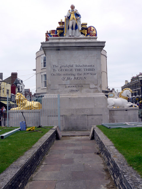 Weymouth - King George III Memorial This statue of King George was erected by the grateful people of Weymouth for putting the town on the map and money in their pockets. More images can be found here